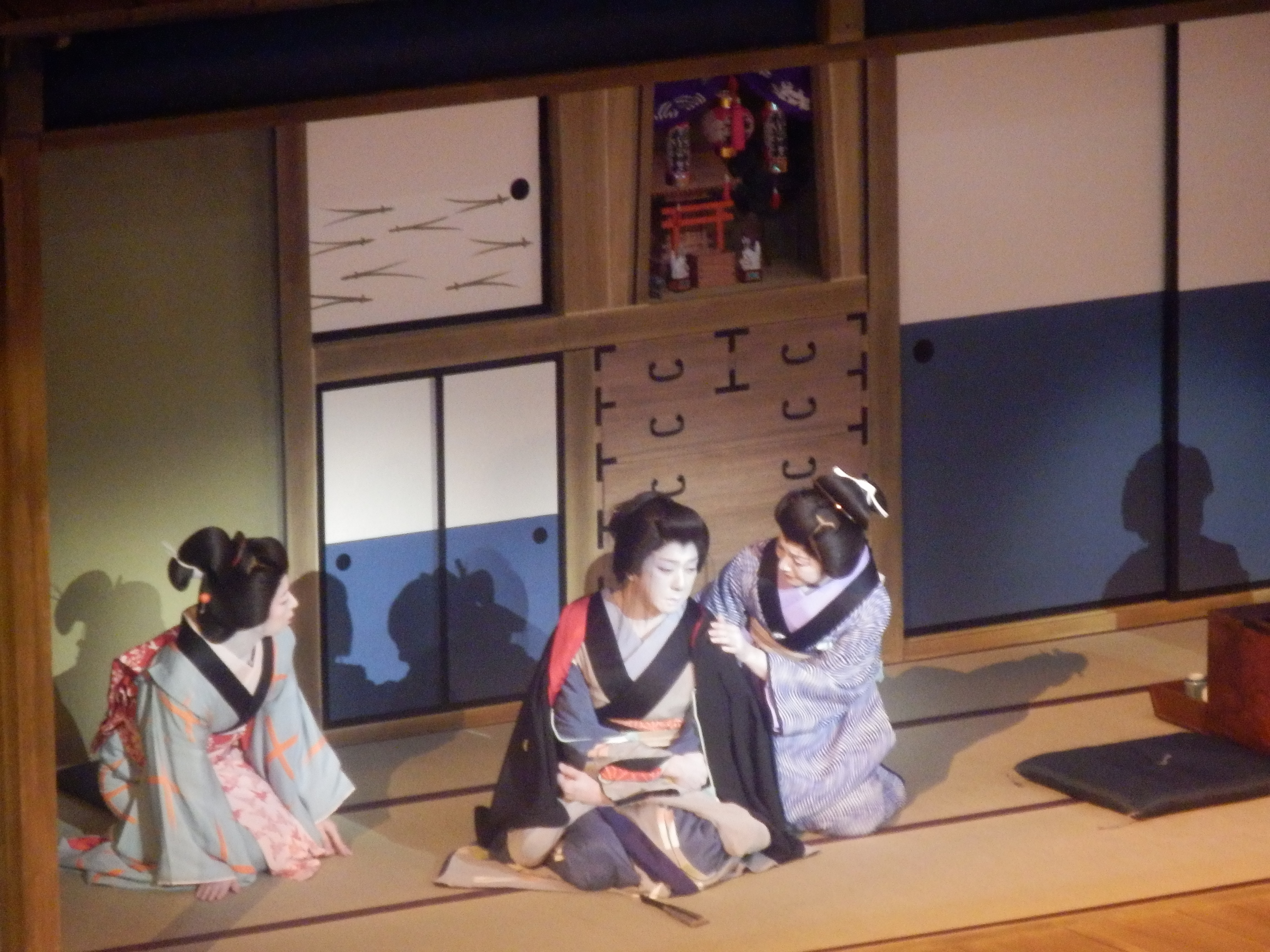 Onnagata actor Bando Tamasaburo V (middle) in a play Nihonbashi